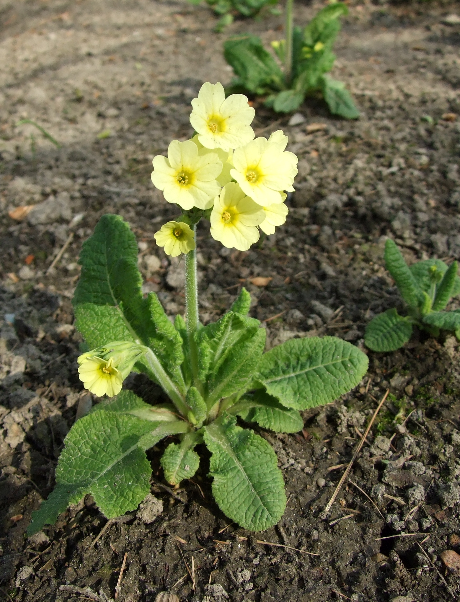 Primula denticulata in the Warsaw University Botanical Garden.